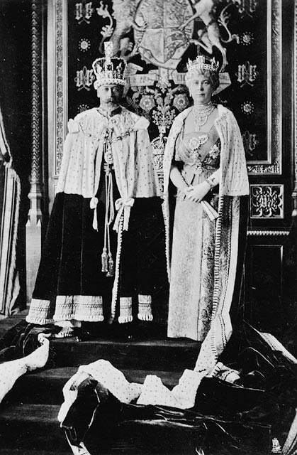 Their majesties King George V and Queen Mary in their robes of State. Photographed by royal command in the House of Lords by Raphael Tuck & Sons, Ltd. [1] This is an image of King George V and Queen Mary (of Teck). They appear to be dressed for a State Opening of Parliament, but the date of the photograph has been lost. Note: This photo likely dates from the Silver Jubilee in 1935. Queen Mary is wearing her state crown without the arches.